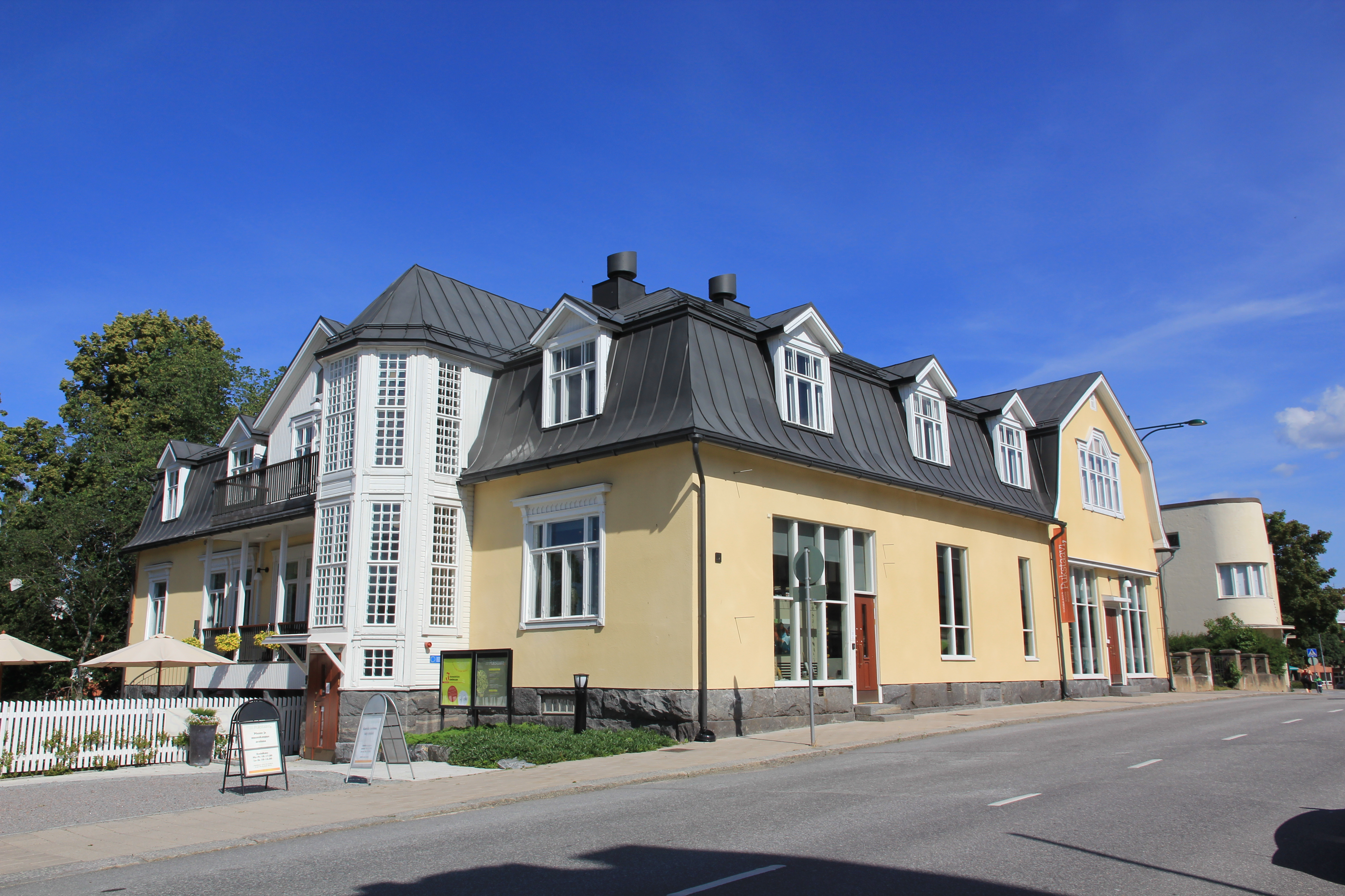 Pukstaavi, museum of the Finnish book in Vammala.